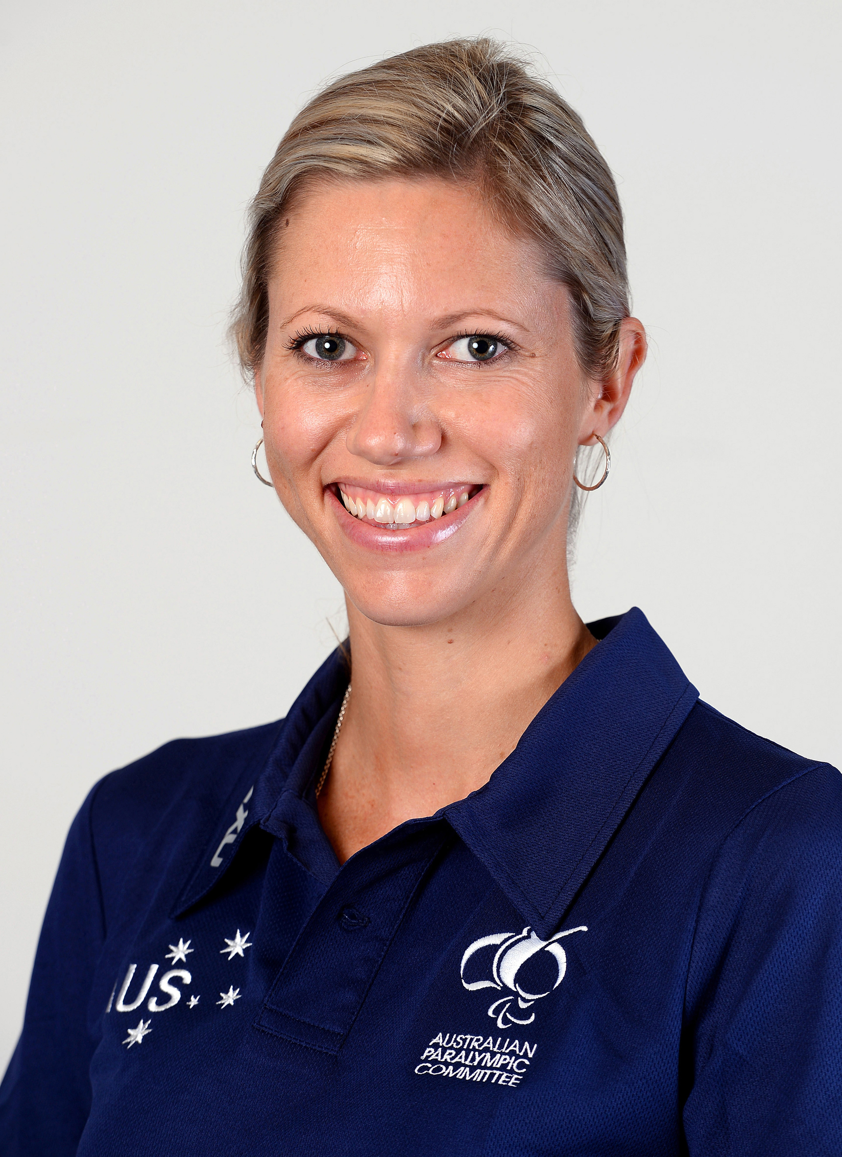 Portrait photograph of Carlee Beattie taken at team processing session for shadow members of 2016 Australian Paralympic team